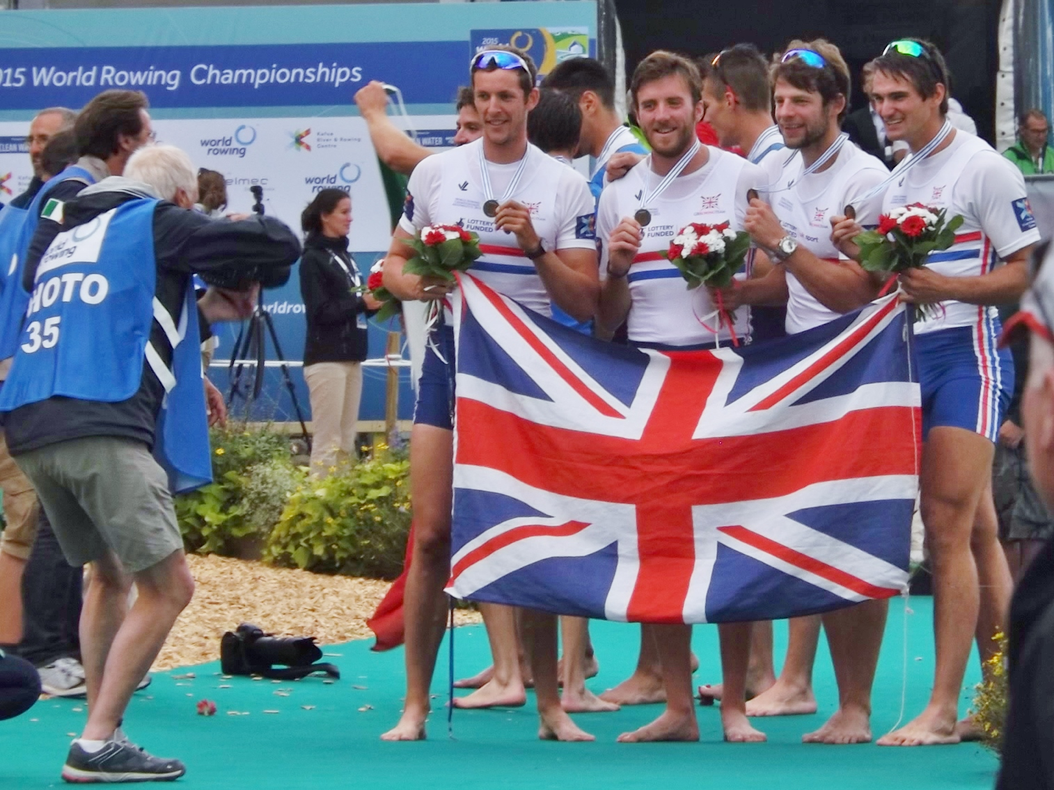 Sight of the British men team (Men's Four), who have won a bronze medal, during the 2015 World Rowing Championships taking place on the lac d'Aiguebelette lake, in Savoie, France.